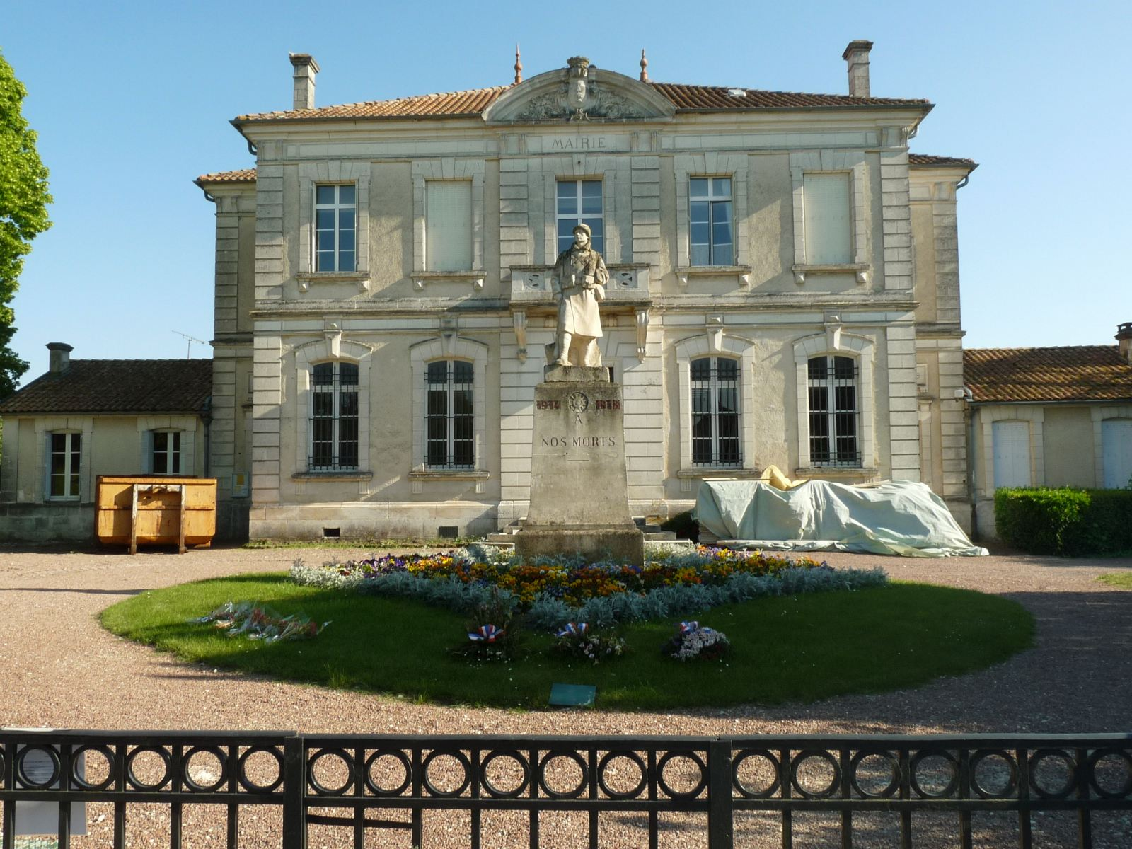 town hall of Villebois-Lavalette, Charente, SW France